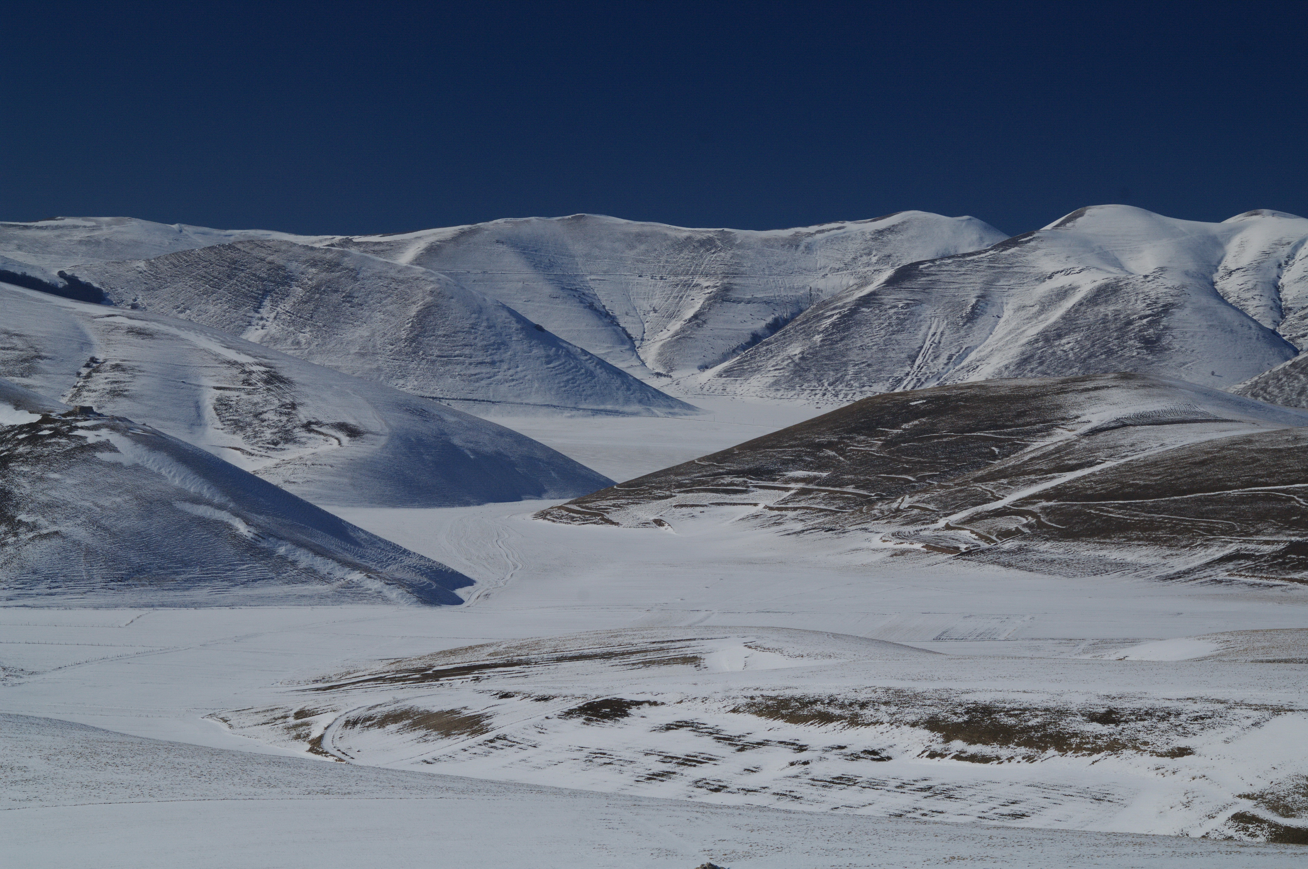 Plateau at Castelluccio during the winter 2011 - Monti Sibillini